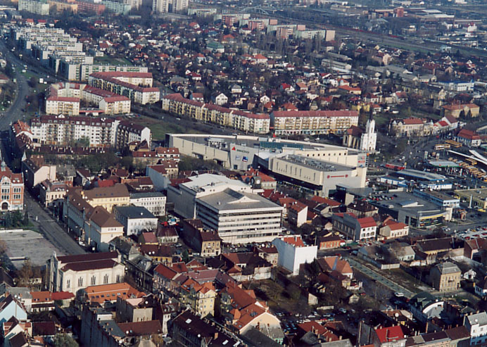 Part of the city centre of Miskolc, viewed from South. On the left side: Heroes' Square, bordered by Ferenc Földes High School (the red brick building), the main post office and the synagogue. In the centre of the pic: the Miskolc Plaza shopping mall (the yellow one). On the right: Búza Square, a main traffic hub of the city and the county. The small white church is the Greek Catholic cathedral.